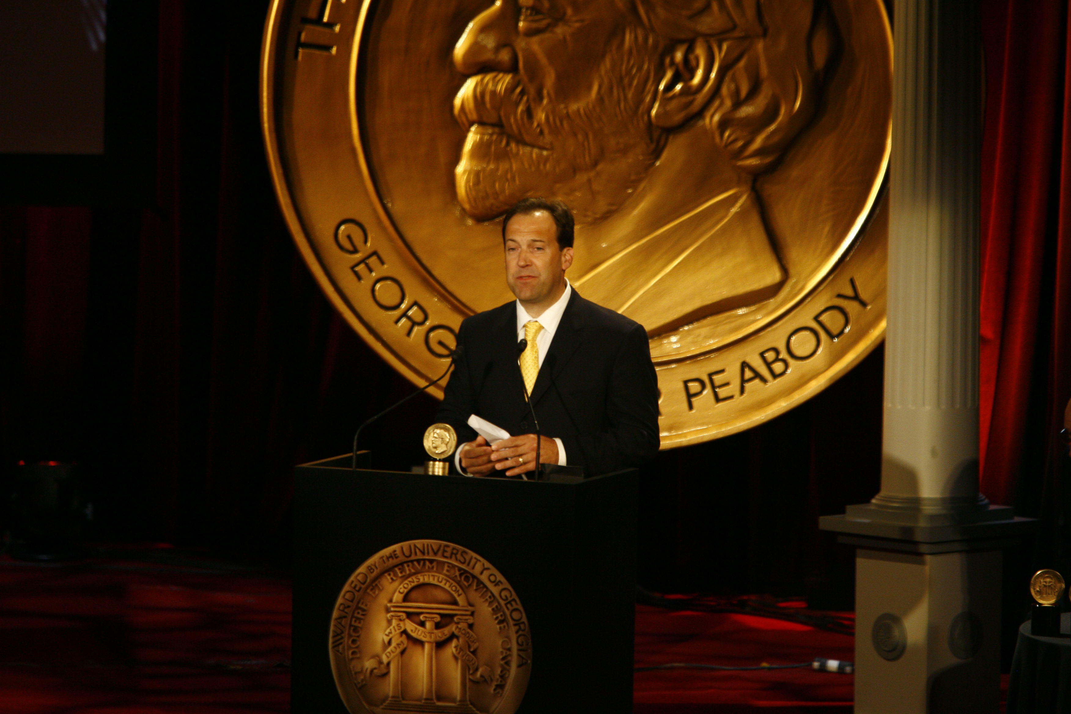 Ed Chapuis 69th Annual Peabody Awards Luncheon Waldorf=Astoria Hotel New York, NY USA May 17, 2010